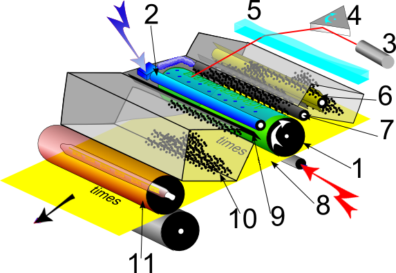 Laser print process